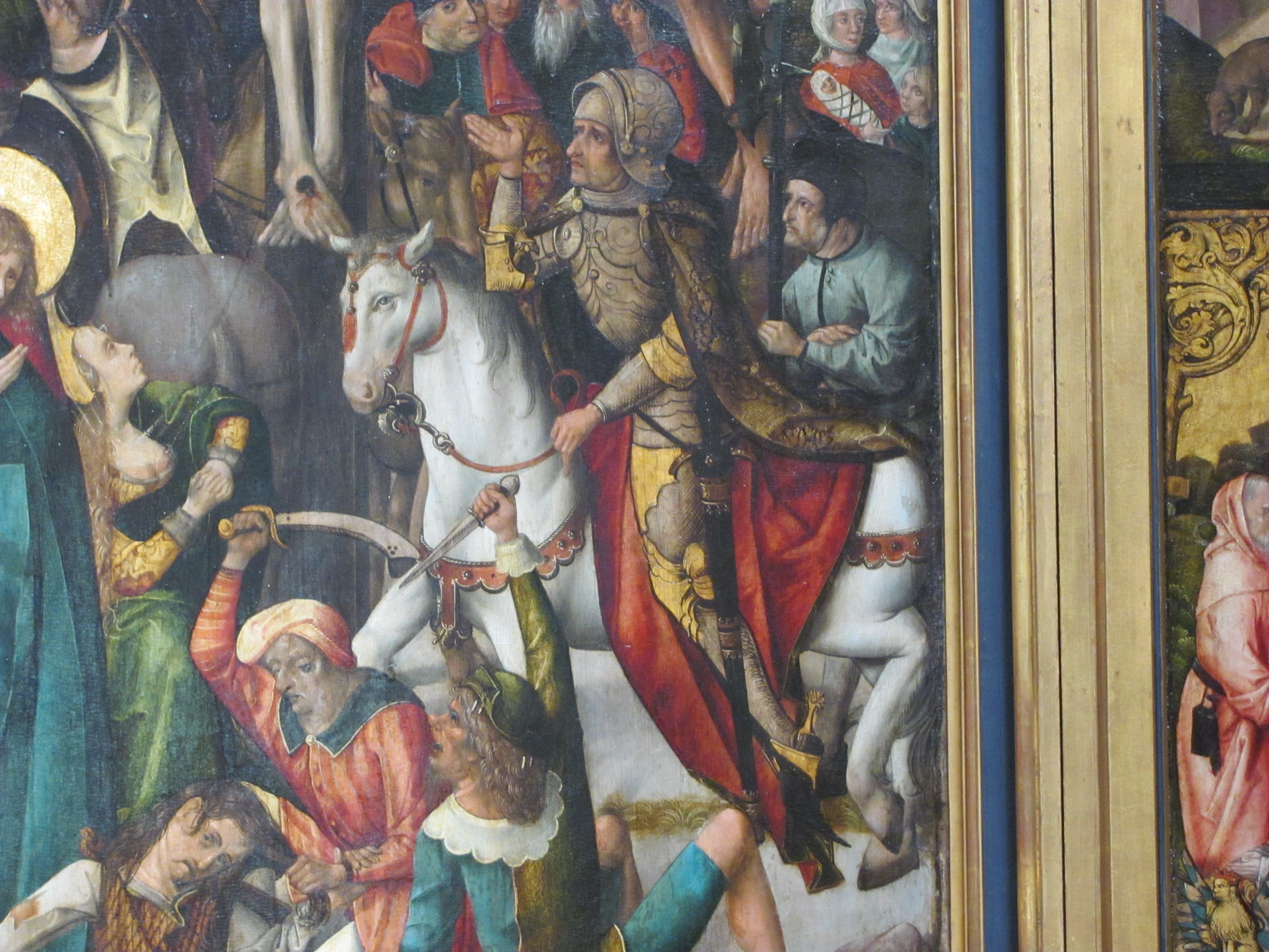 Count Philipp I of Hanau-Muenzenberg on the altar-painting of the Woerther Altar representing the roman captain in the crucification-scene